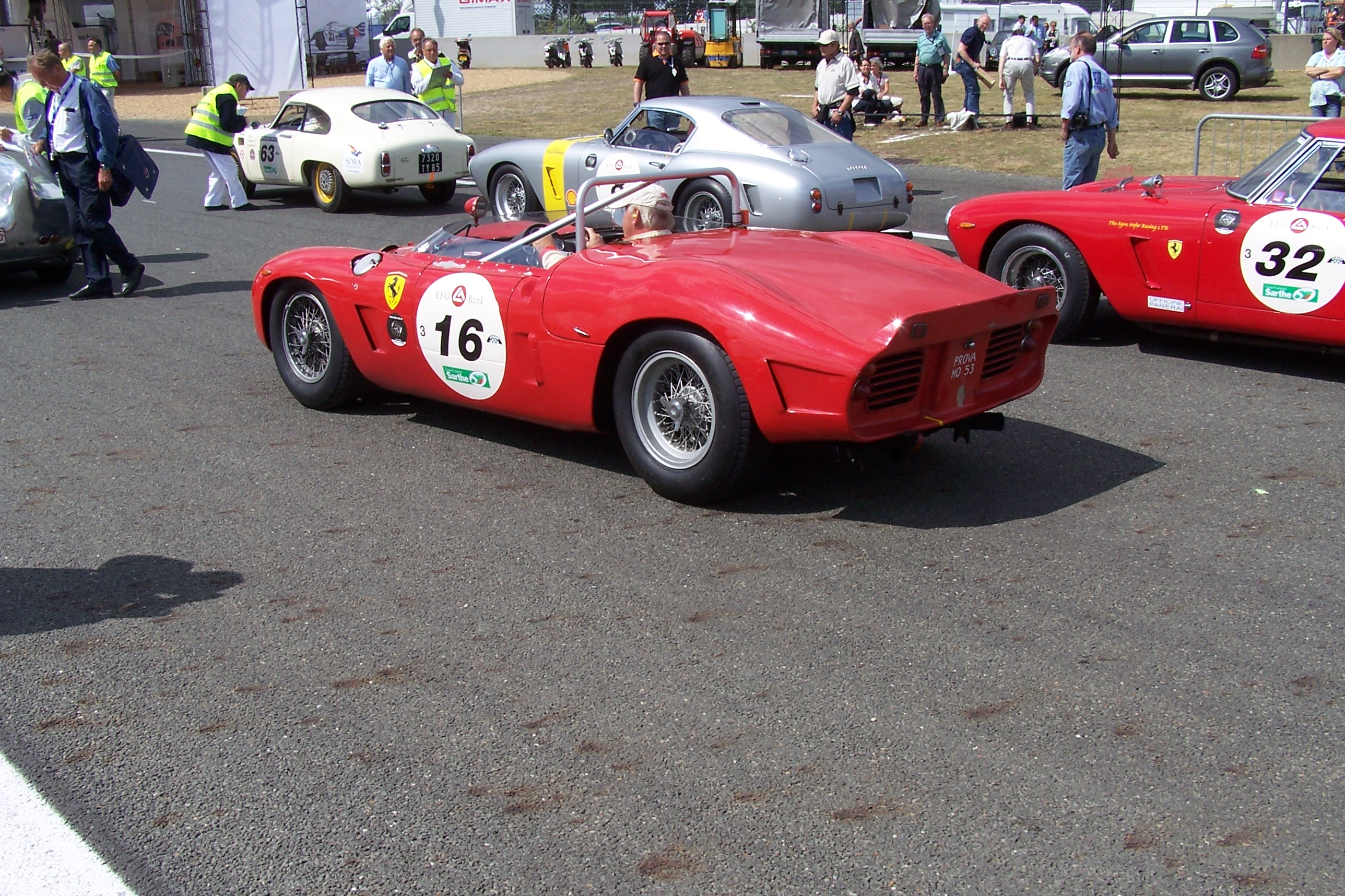 1961 Ferrari 196 SP s/n 0790 at Mans Classic before enter on circuit. License "PROVA MO 53" and drivers Jos Koster and M. van Duijvendijk. In the back, at the left is a "Deutsch and Bonnett" DB HBR 5 (#63, license "7320 TY 85"), then two Ferrari 250 GT SWB: First, #8 (silver, 1960 Ferrari 250 GT SWB Berlinetta s/n 2069GT) and to the right, #32 (red, 1961 Ferrari 250 GT SWB Berlinetta Competizione s/n 2701GT)[1]